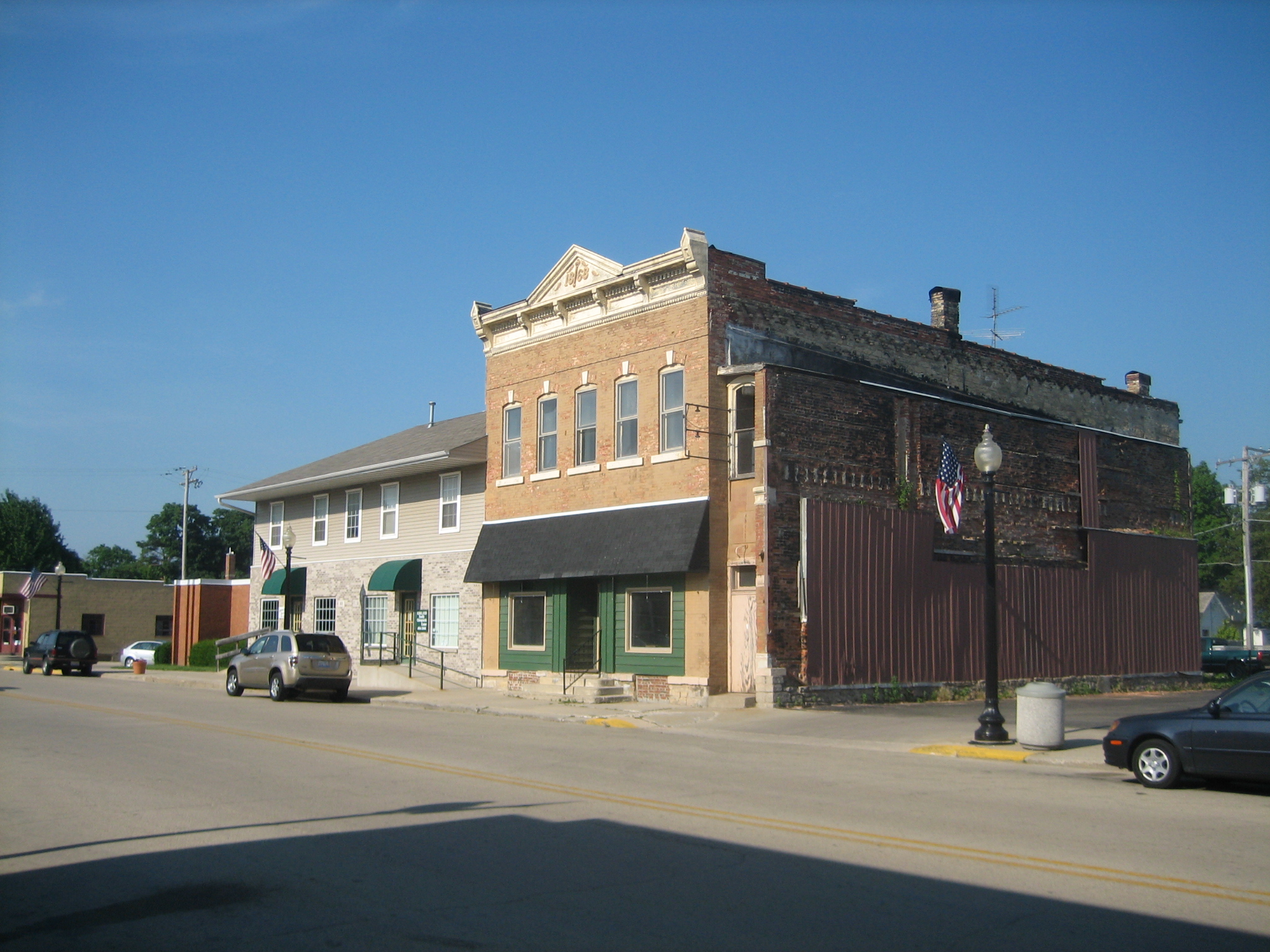 Some of the few commercial buildings in Franklin Grove, Illinois, USA.